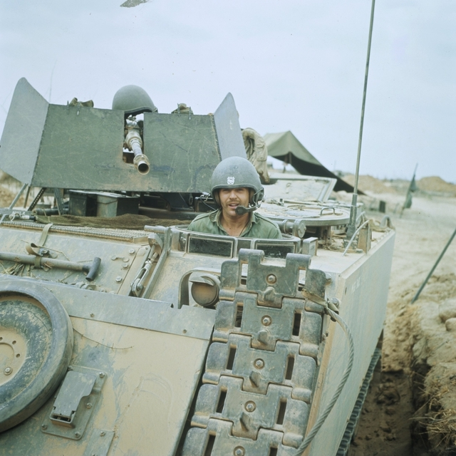 AWM image EKT/69/0005/VN. Bien Hoa Province, South Vietnam. February 1969. 3793130 Trooper Norman J (Normie) Rowe of Melbourne, Vic, and of A Squadron, 3rd Cavalry Regiment, getting in his M113 armoured personnel carrier (APC) at Fire Support Base Kerry.